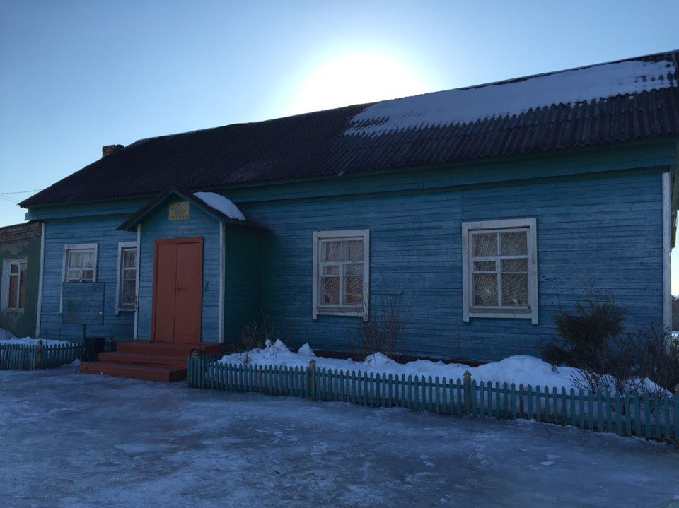 ерыерер